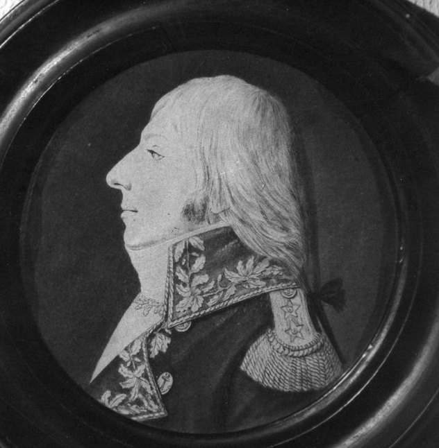 Miniature showing French Admiral Charles- Alexandre Durand Linois. Undated (c. 1800).